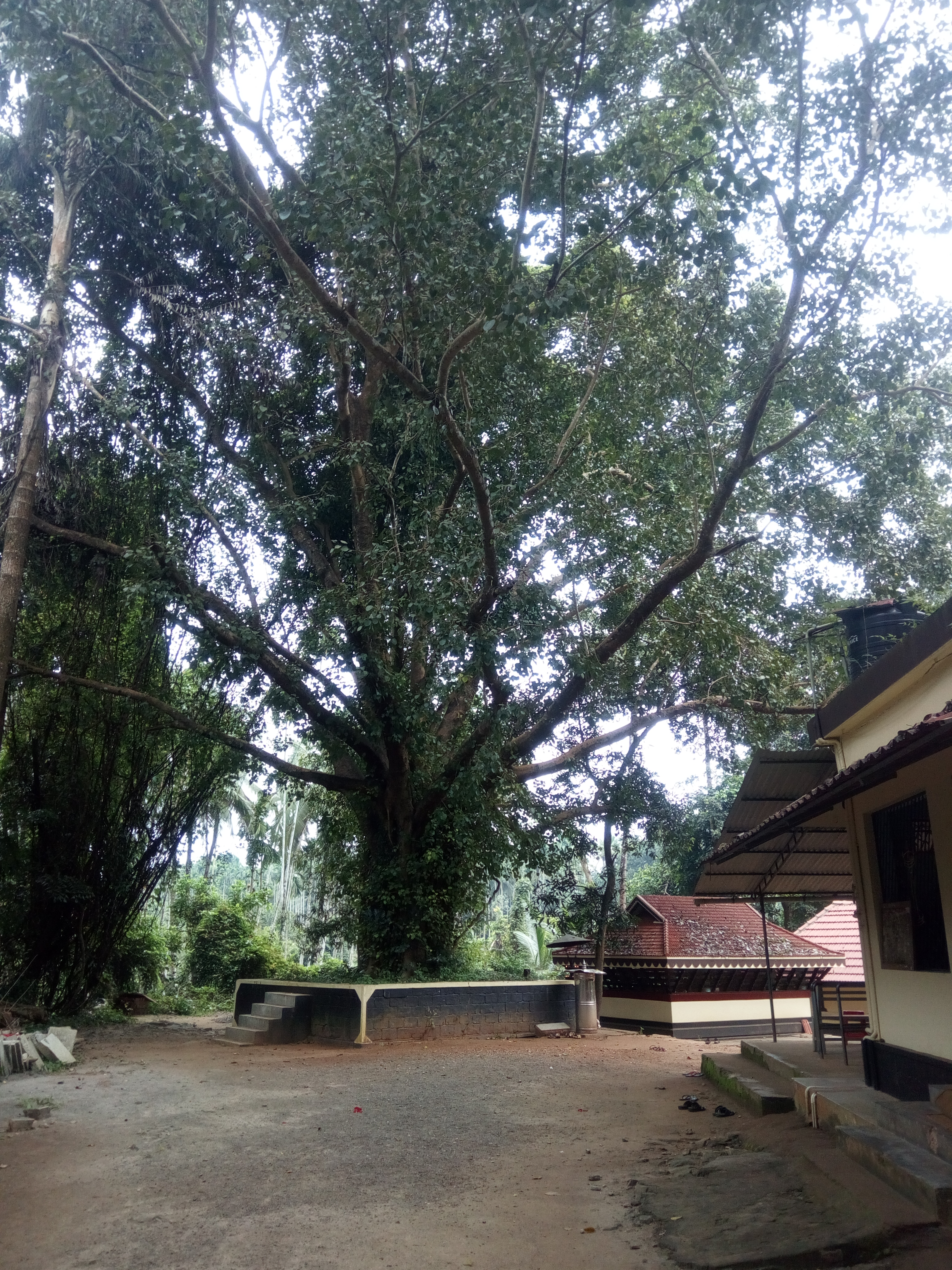 Chemmanthitta kavu is an famous vanadurga temple in karulai region of malappuram district. It is situated in the shore of karimpuzha